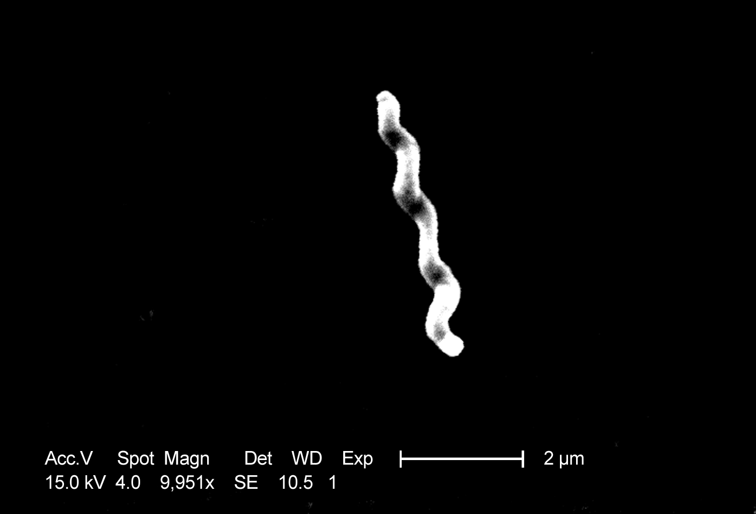 Scanning electron micrograph of Campylobacter jejuni bacteria. Obtained from the CDC Public Health Image Library. Image credit: CDC/ Dr. Patricia Fields, Dr. Collette Fitzgerald (PHIL #5781), 2004.